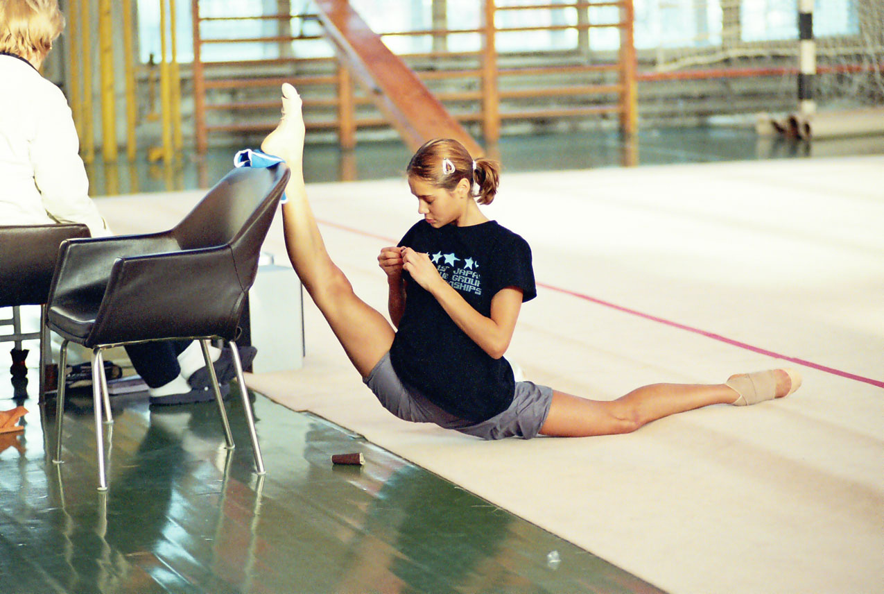 Russian rhythmic gymnast Irina Chaschina stretching. This is an example of an oversplit, or a split that exceeds 180 degrees.